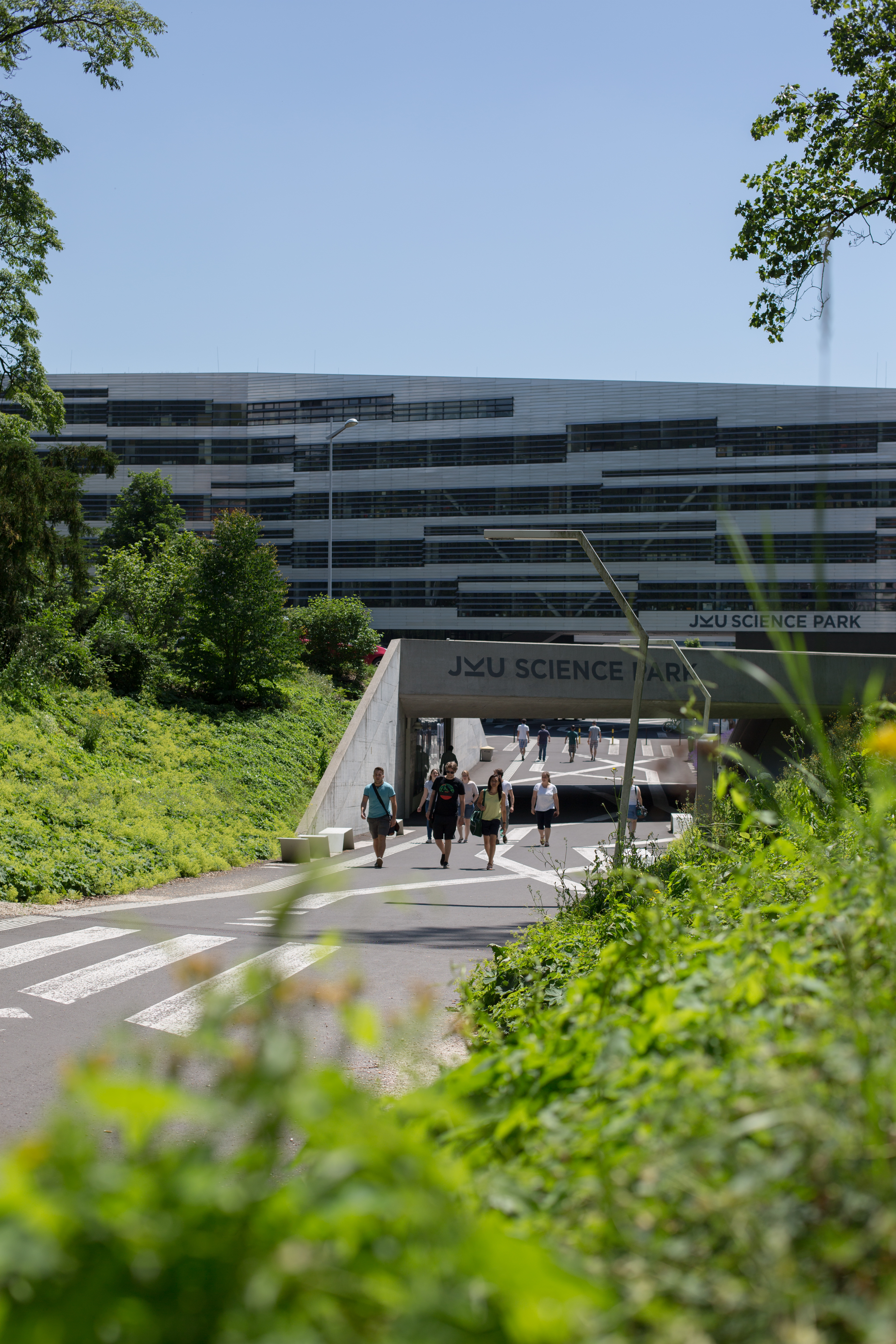 Campus of the JKU